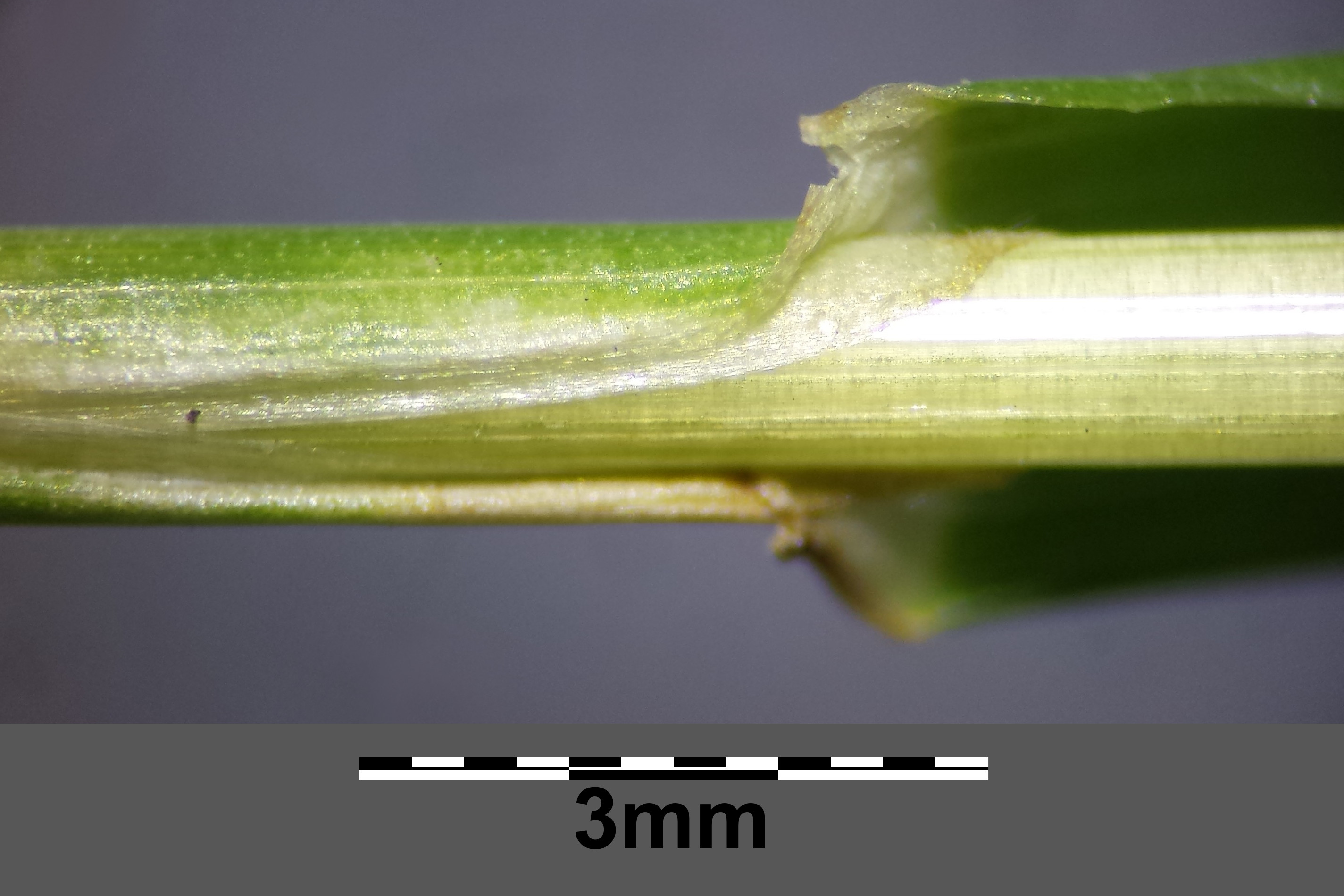 Leaf sheath with decurrent ligule Taxonym: Poa pratensis ss Fischer et al. EfÖLS 2008 ISBN 978-3-85474-187-9 Location: next to Schmetterlingswiese in Donaupark, Vienna-Donaustadt - ca. 160 m a.s.l. Habitat: ruderal, dry meadows